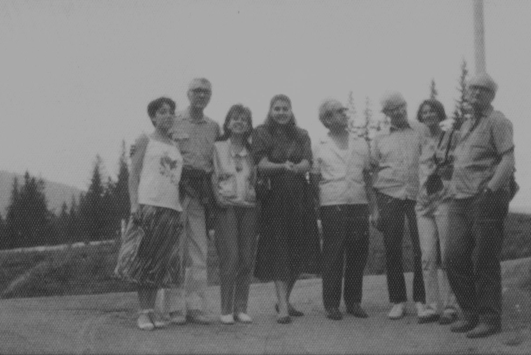 Tabăra de folclor Vrancea, 1989. Cu Nicolae Constantinescu, Mihai Pop și Nicolae Bot